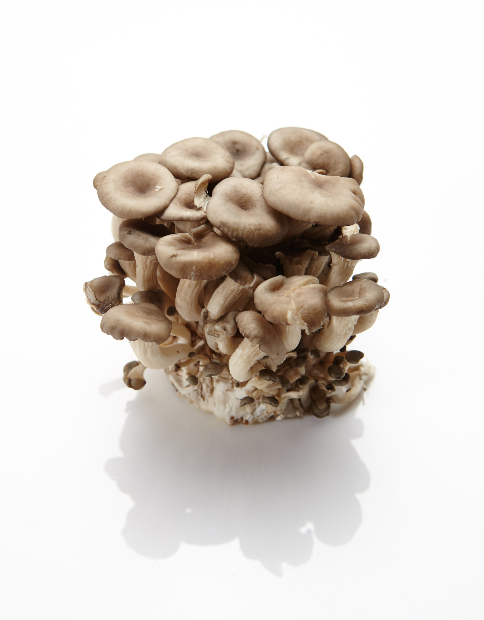 neutari (oyster mushroom)